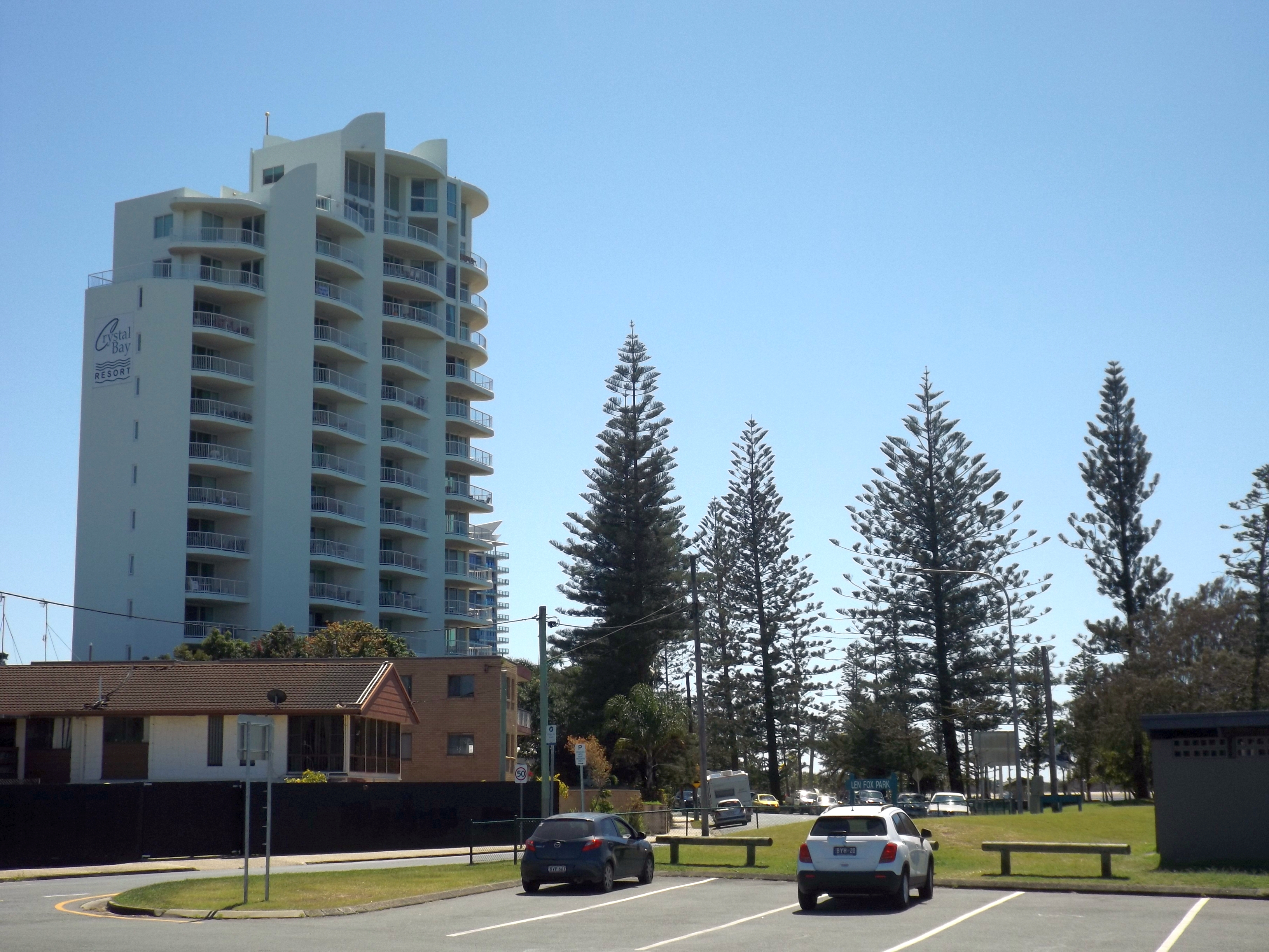 Photo of Marine Parade at apartment building, Norfolk Pines and foreshore reserve along the Broadwater at Labrador, Gold Coast City, Queensland, Australia.